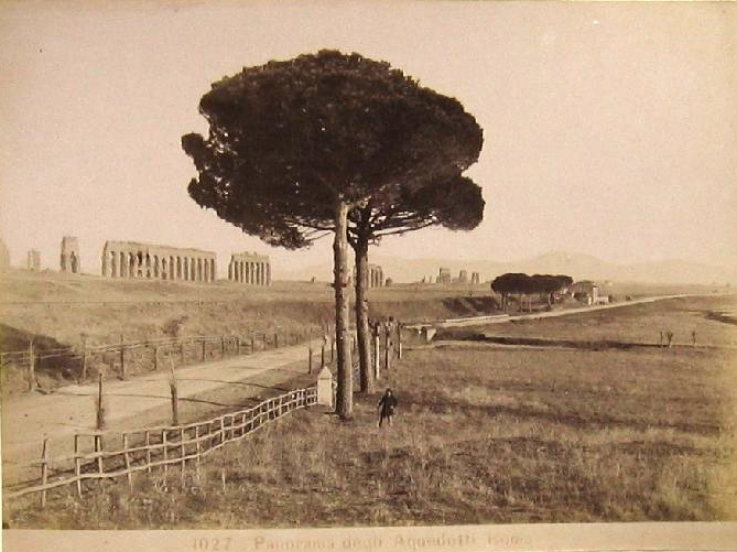 Romualdo Moscioni (1849-1925), "View of the Aqueducts, Rome". Catalogue # 1027.